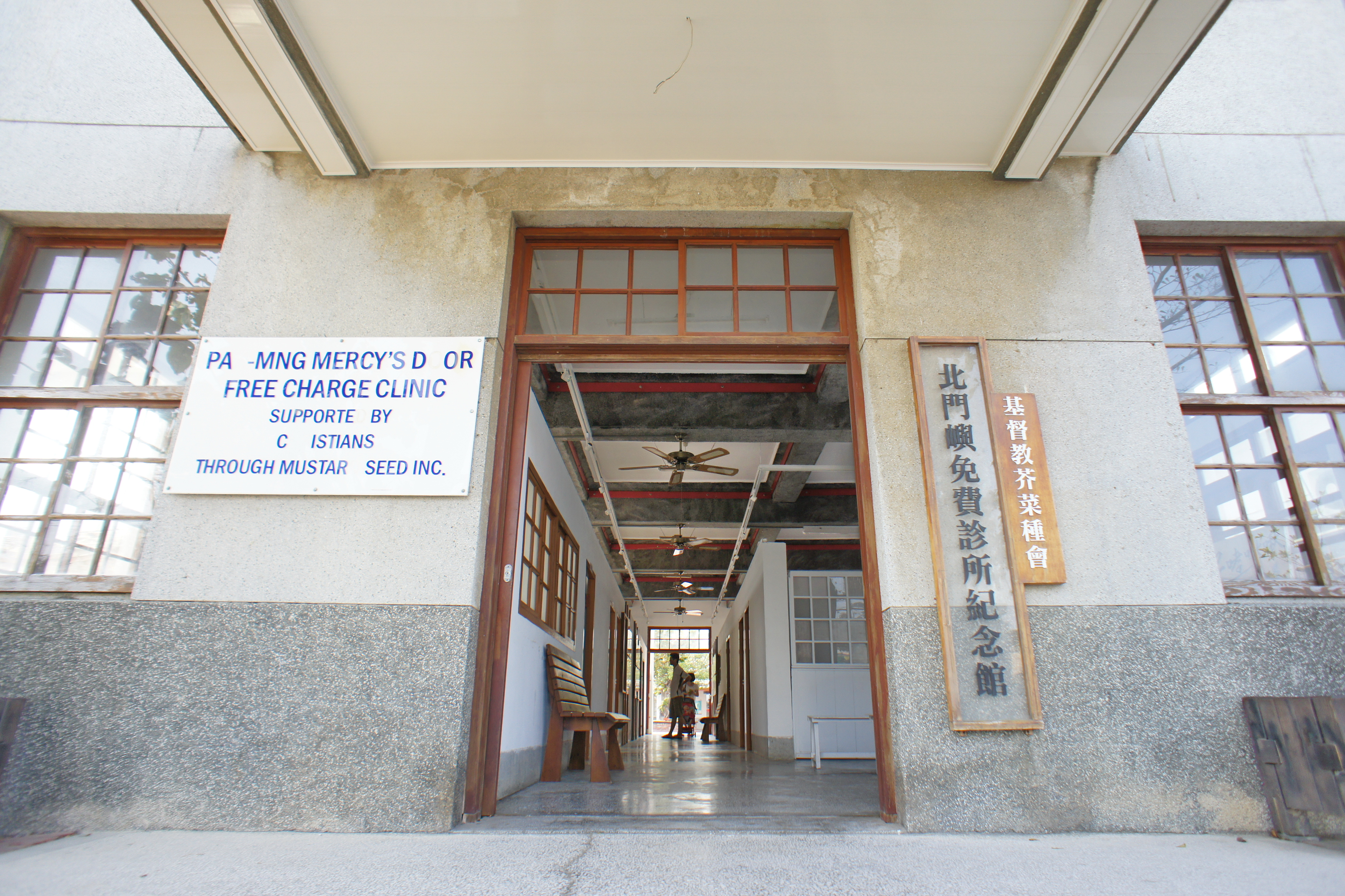 Pak-Mng Mercy's Door Free Clinic, Beimen, Tainan, Taiwan.